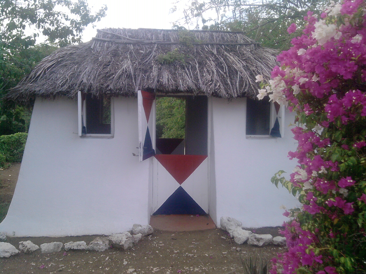 A Kunuku (traditional slave house).